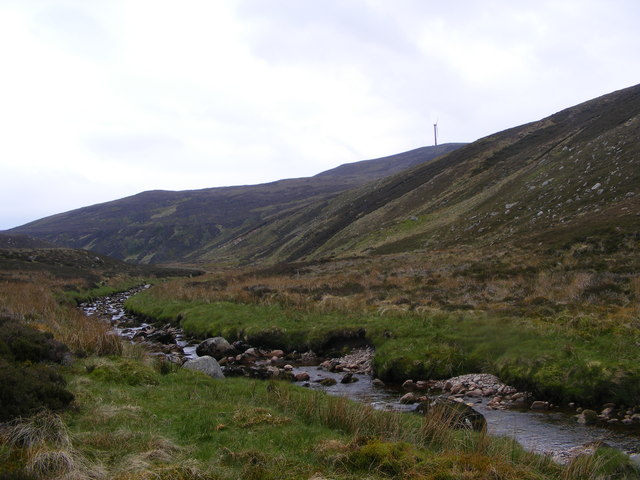 Across Allt Uisg an t-Sidhein to Wind Turbine on Beinn Dubhcharaidh, Dunmaglass, Highland Scotland